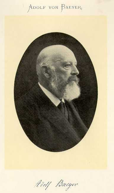 Adolf von Baeyer's Nobel prize photo